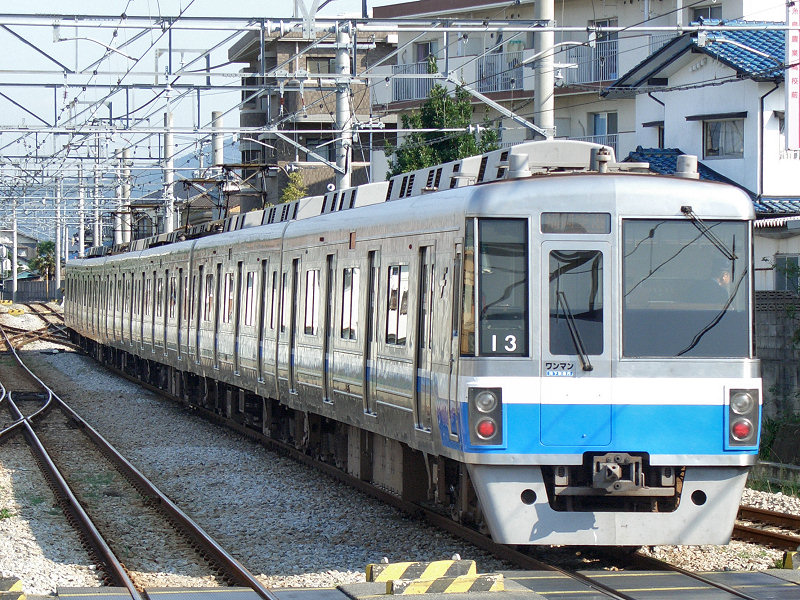 Fukuoka Municipal Subway 1000 series EMU set 13 approaching Chikuzen-Maebaru Station